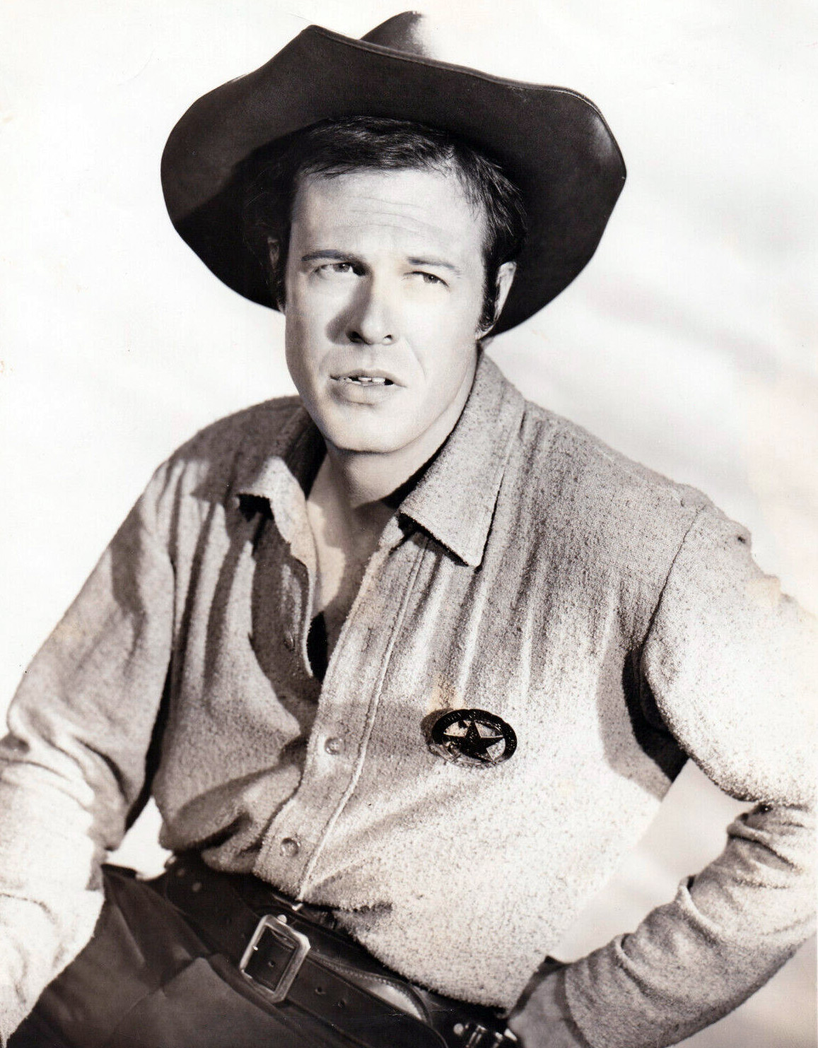 Photo of Robert Culp as Texas Ranger Hoby Gilman from the television program Trackdown.